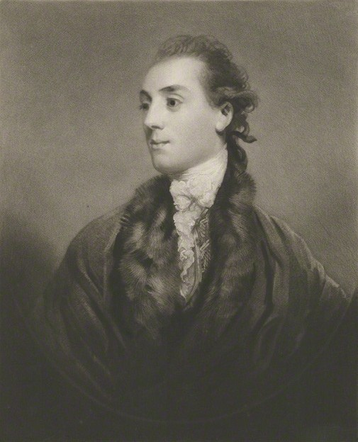 Portrait of James Hare (1747–1804), English politician.